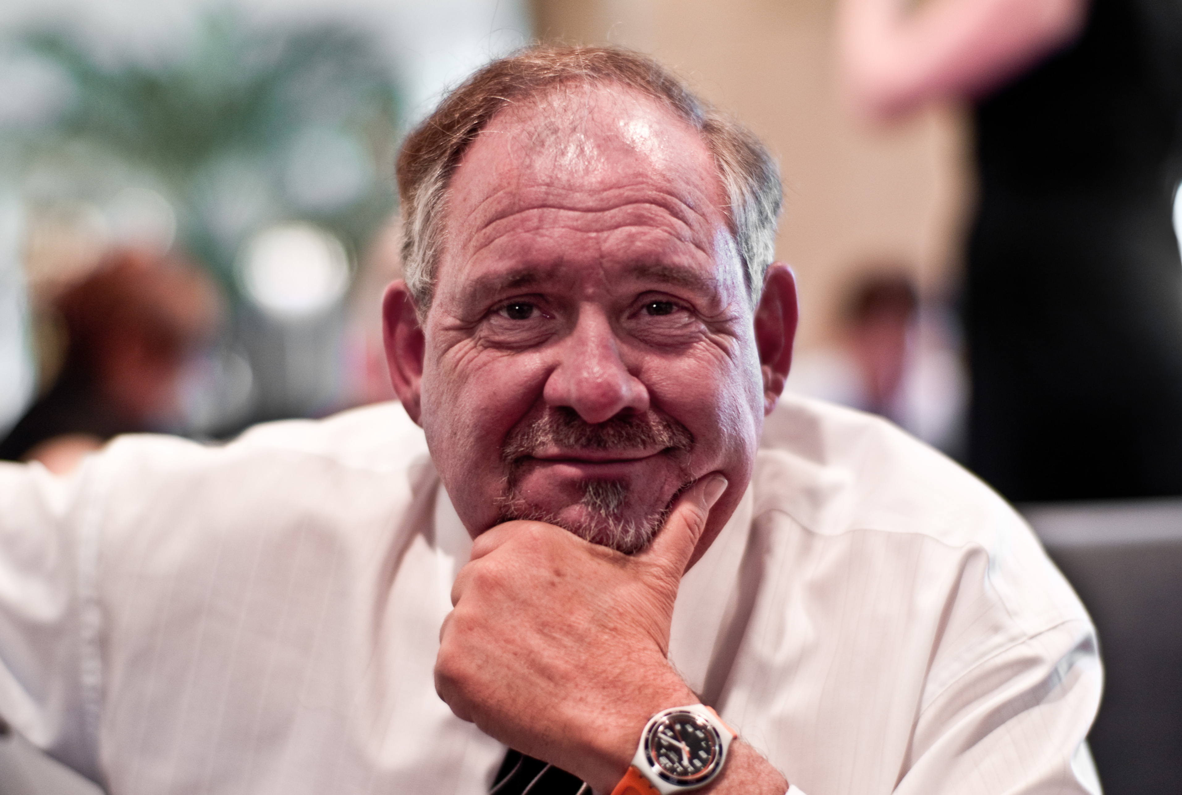 Larry Brilliant